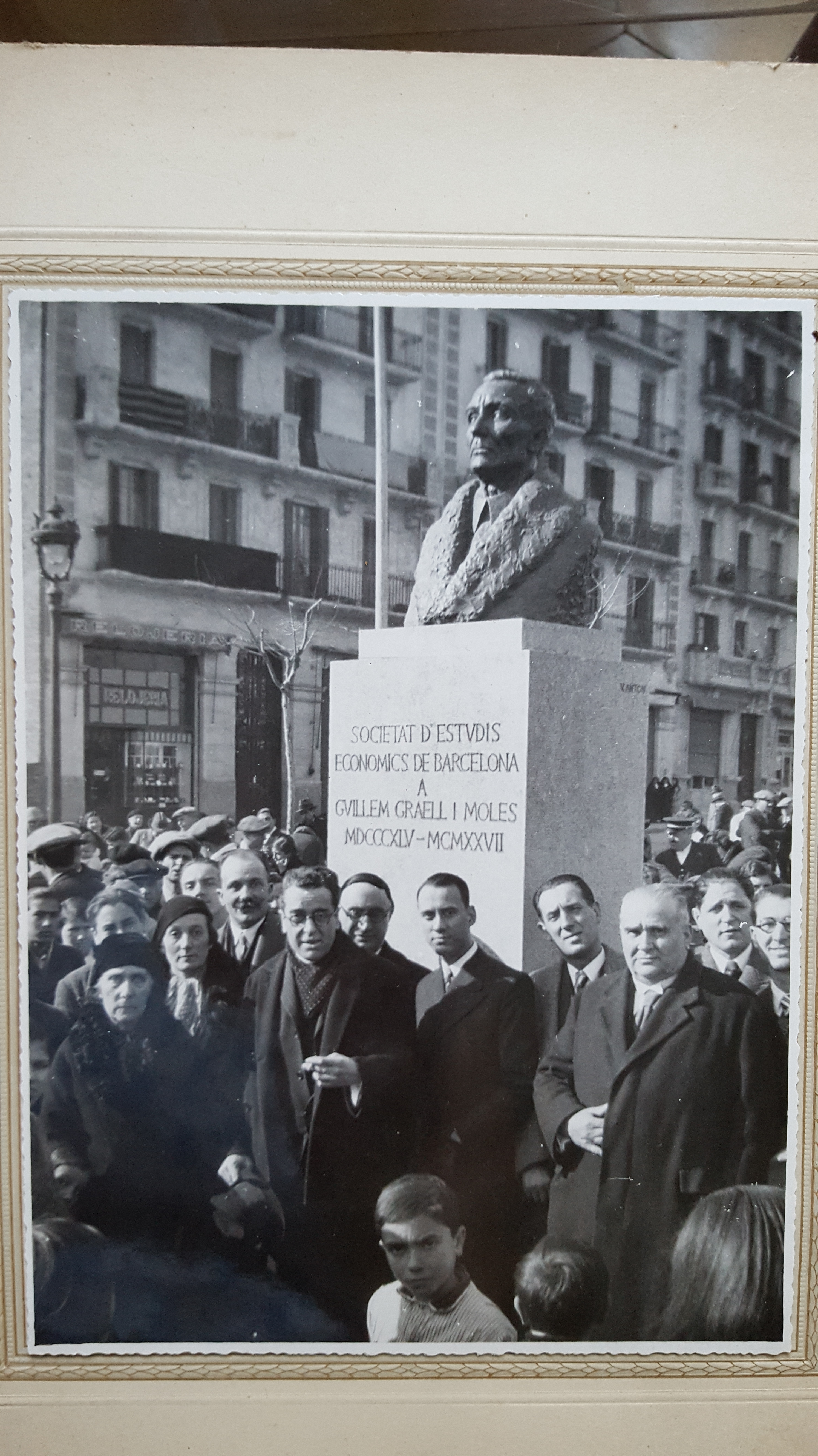 La Sociedad de Estudios Económicos dedicó este busto a don Guillermo Graell Moles en el Paseo San Juan de Barcelona como reconocimiento a su figura. En el centro, fumando y mirando a la cámara, su hijo, don Marcelino Graell Fernández, secretario de dicha Sociedad.